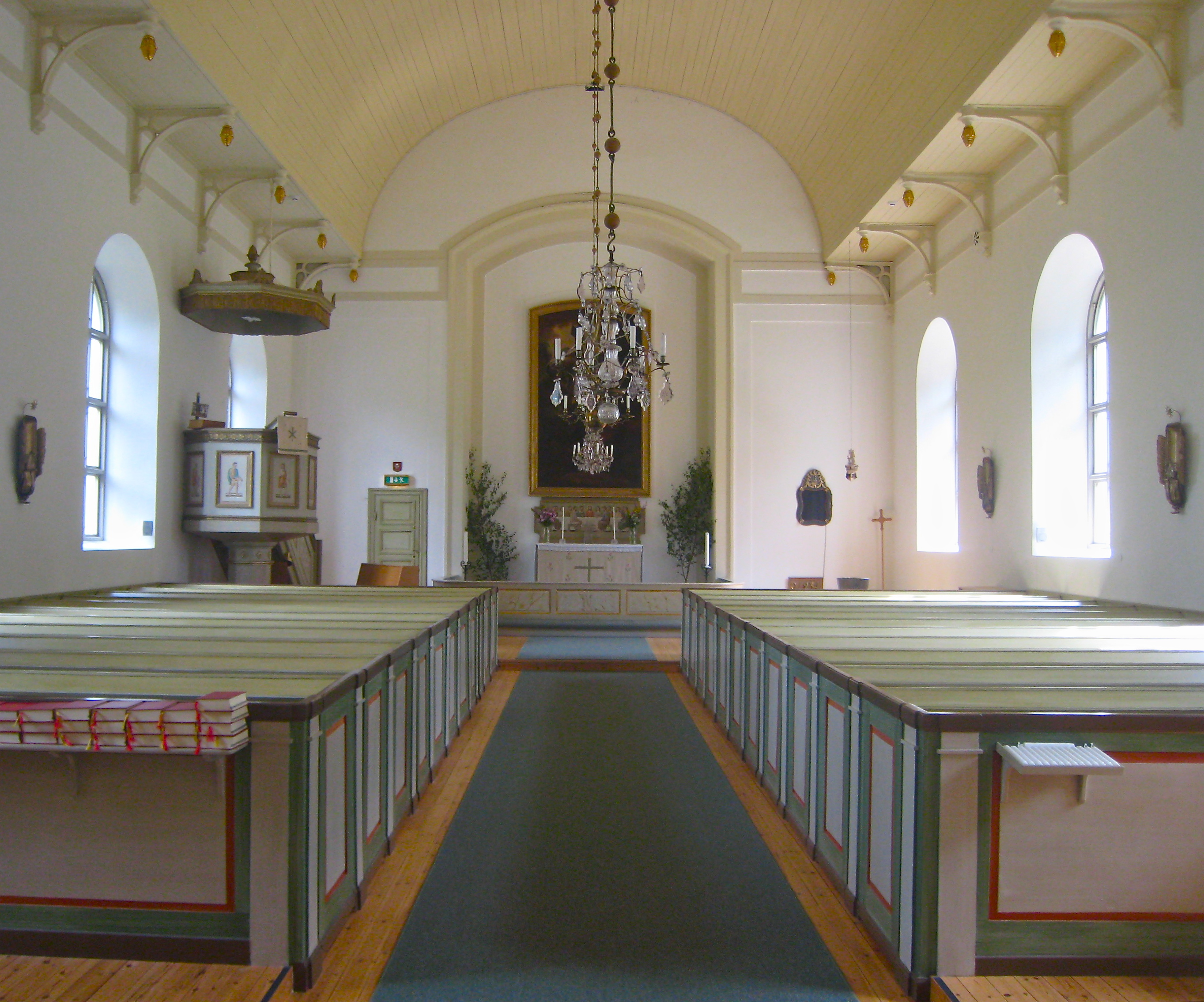 Utö kyrka.